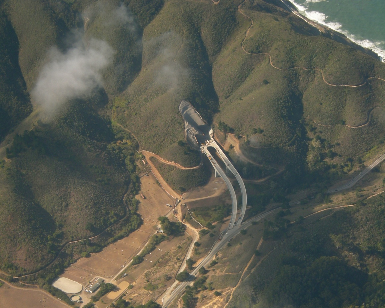 Aerial view of tunnel under construction as a bypass at Devil's Slide on the California coast in San Mateo County.